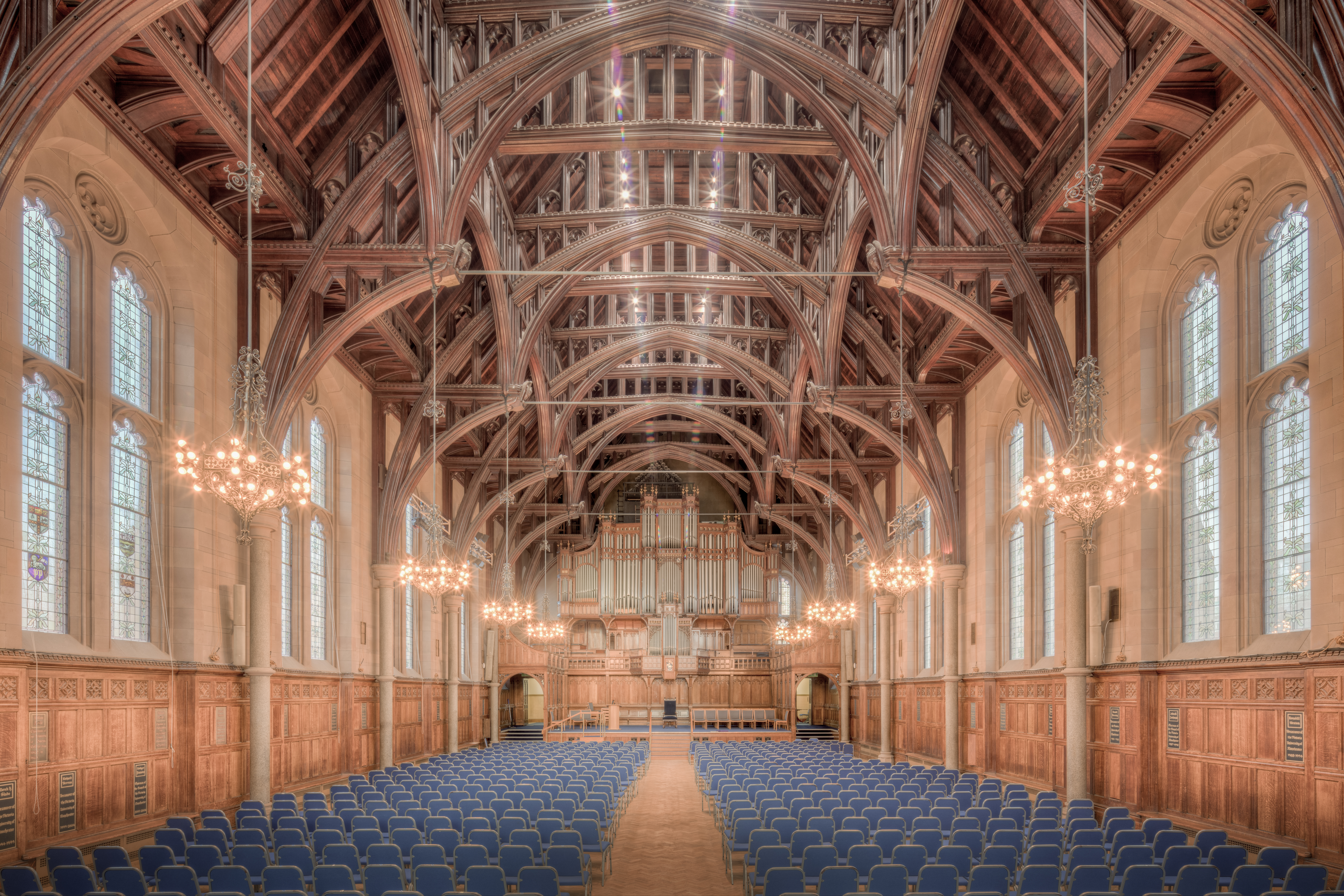 Here is a photograph taken from Whitworth Hall inside The University of Manchester. Located in Manchester, Greater Manchester, England, UK. (Taken with kind permission of the administration)